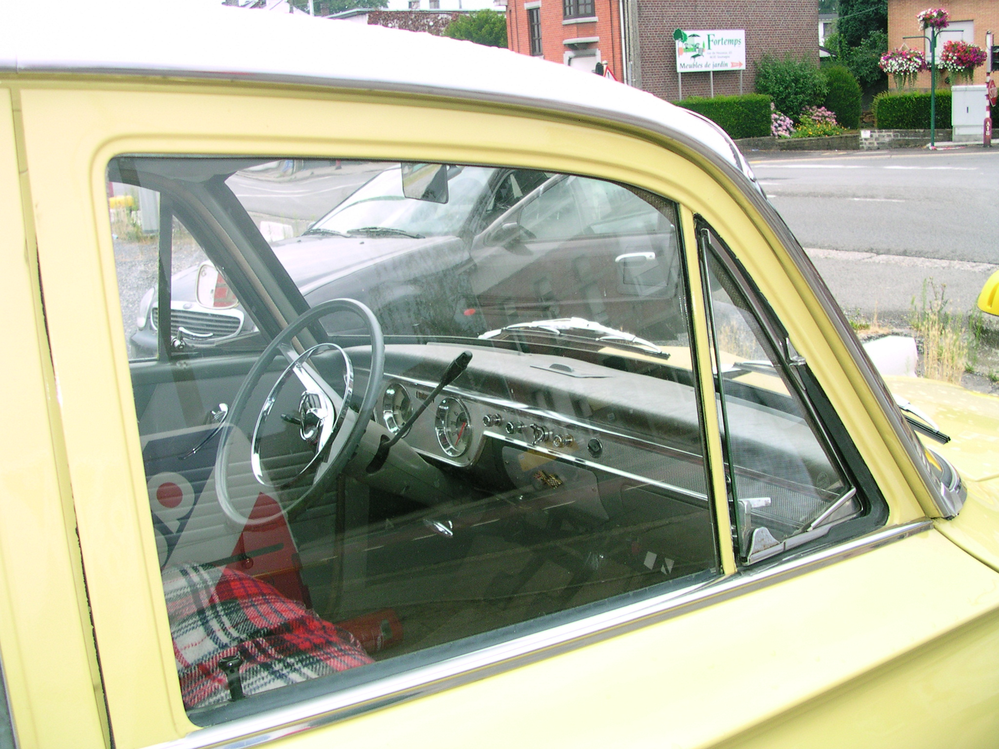 Vauxhall FB Victor, seen between Visé and Soumagne